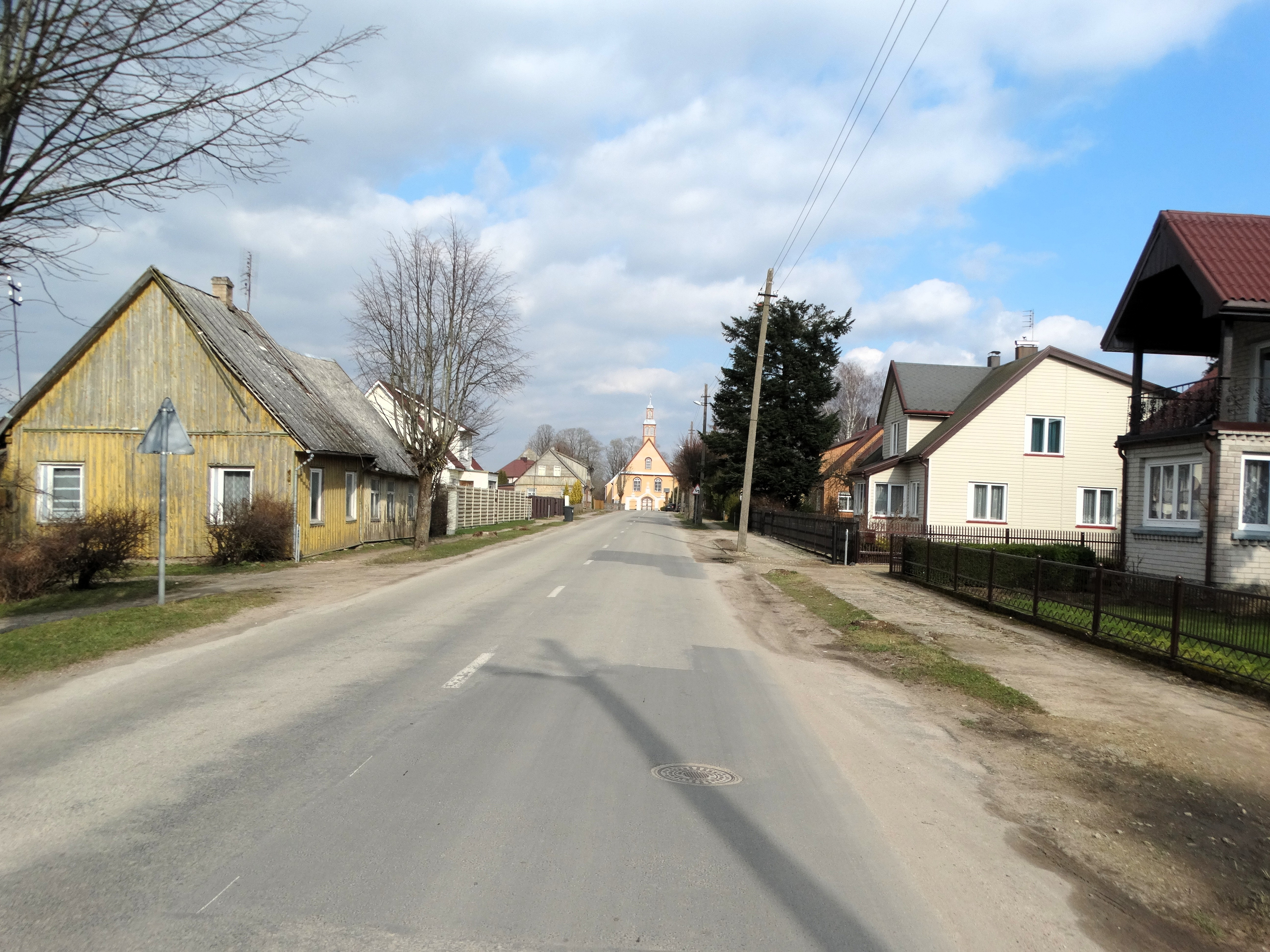 Veiviržėnai, Klaipėda District, Lithuania